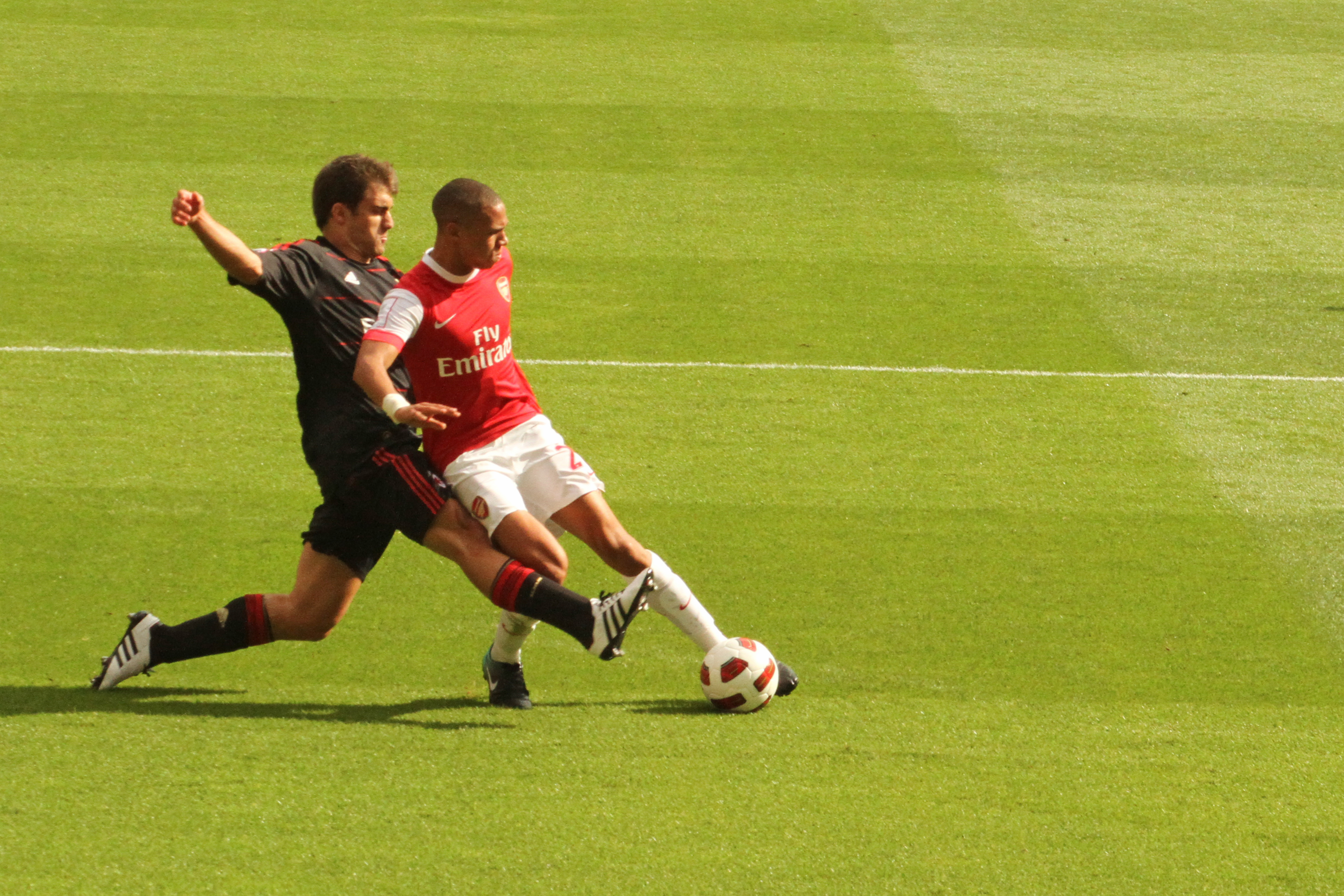 Sokratis Papastathopoulos and Kieran Gibbs during Emirates Cup 2010